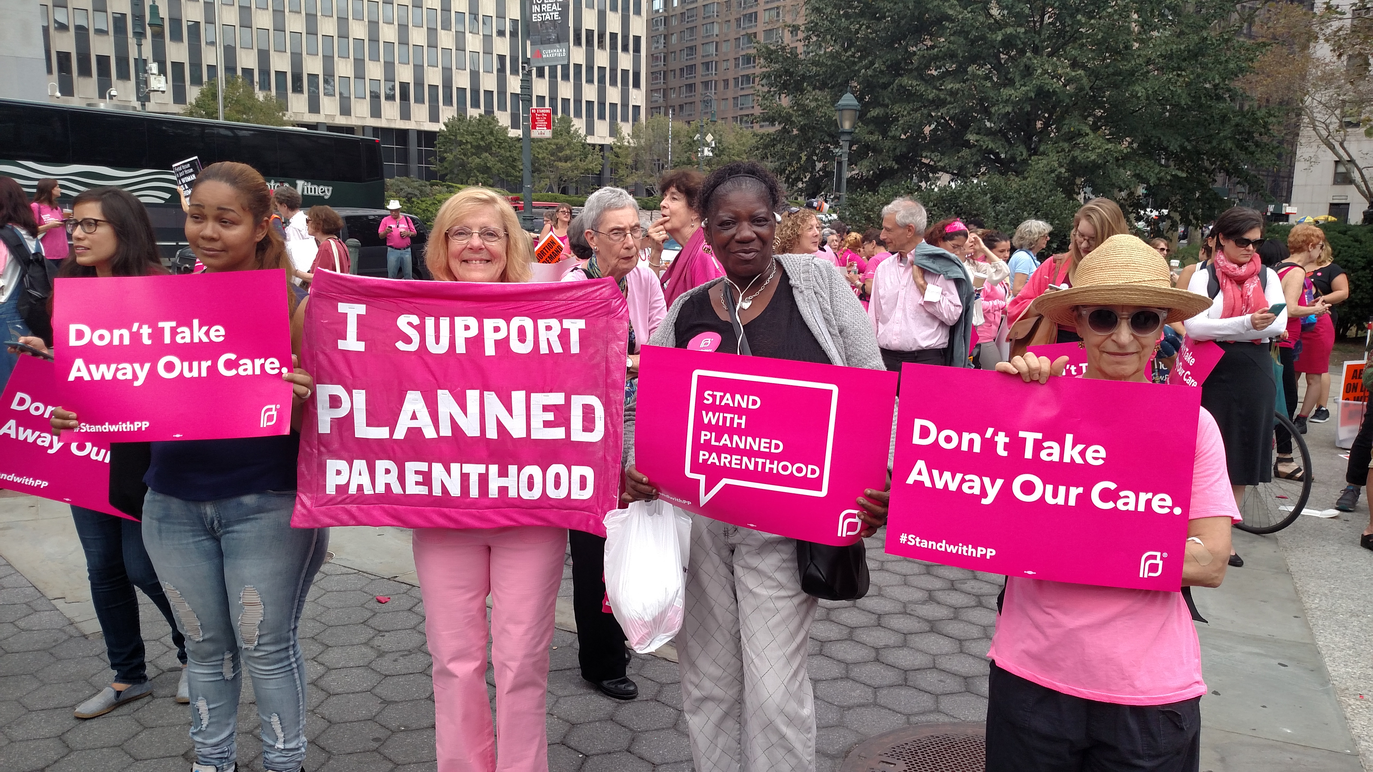 Pink out for Planned Parenthood